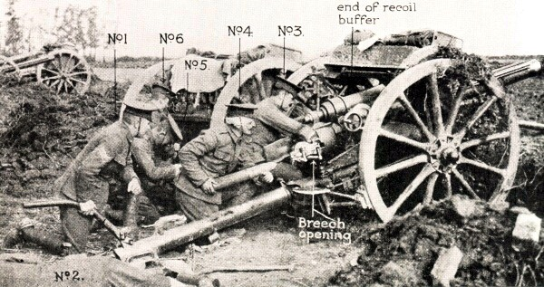 Photograph of British 18 pounder gun, WWI, with crew in formal positions as marked.